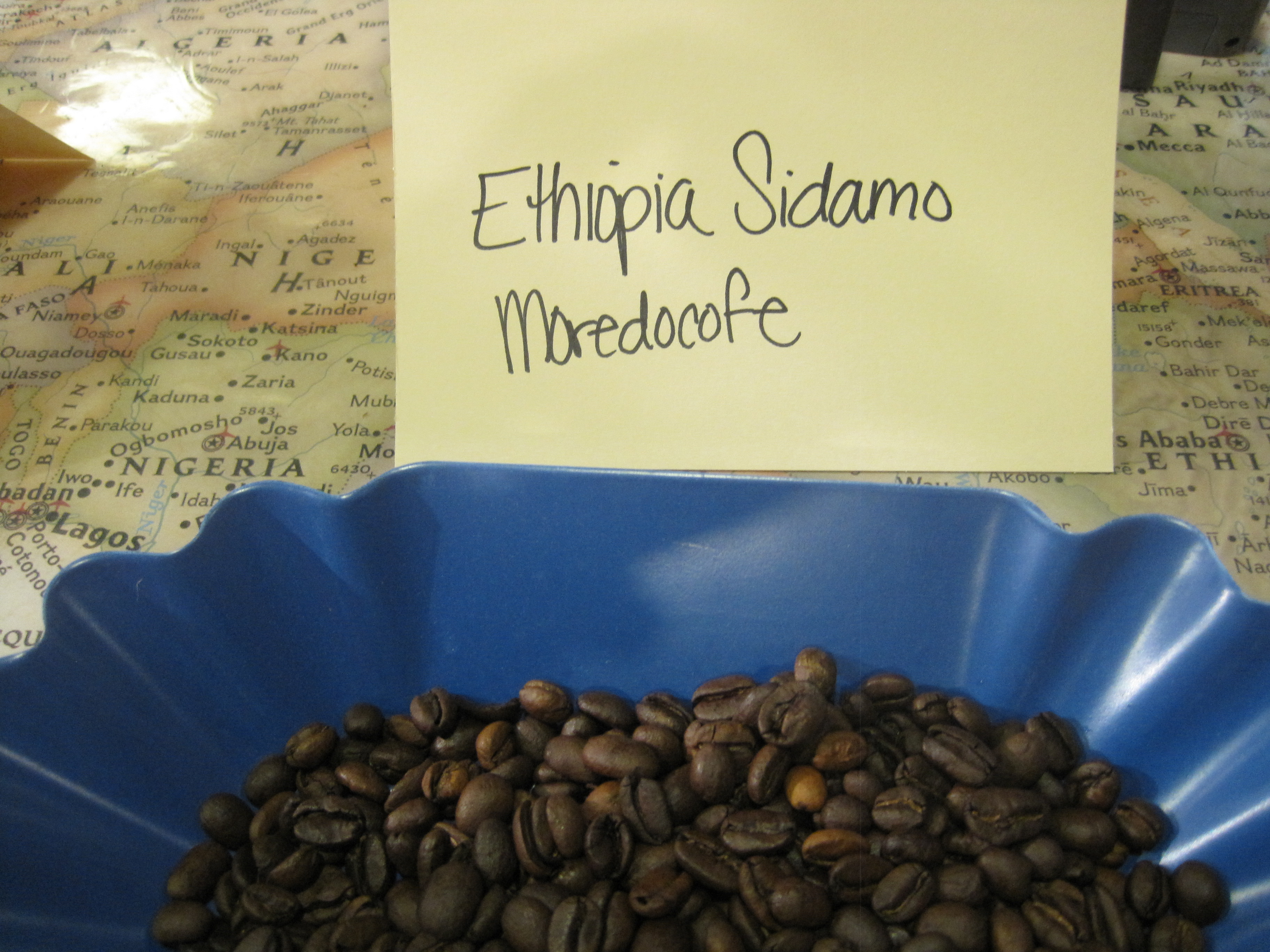 From Monday Coffee Cupping at Seattle Coffee Works by CoffeeHero